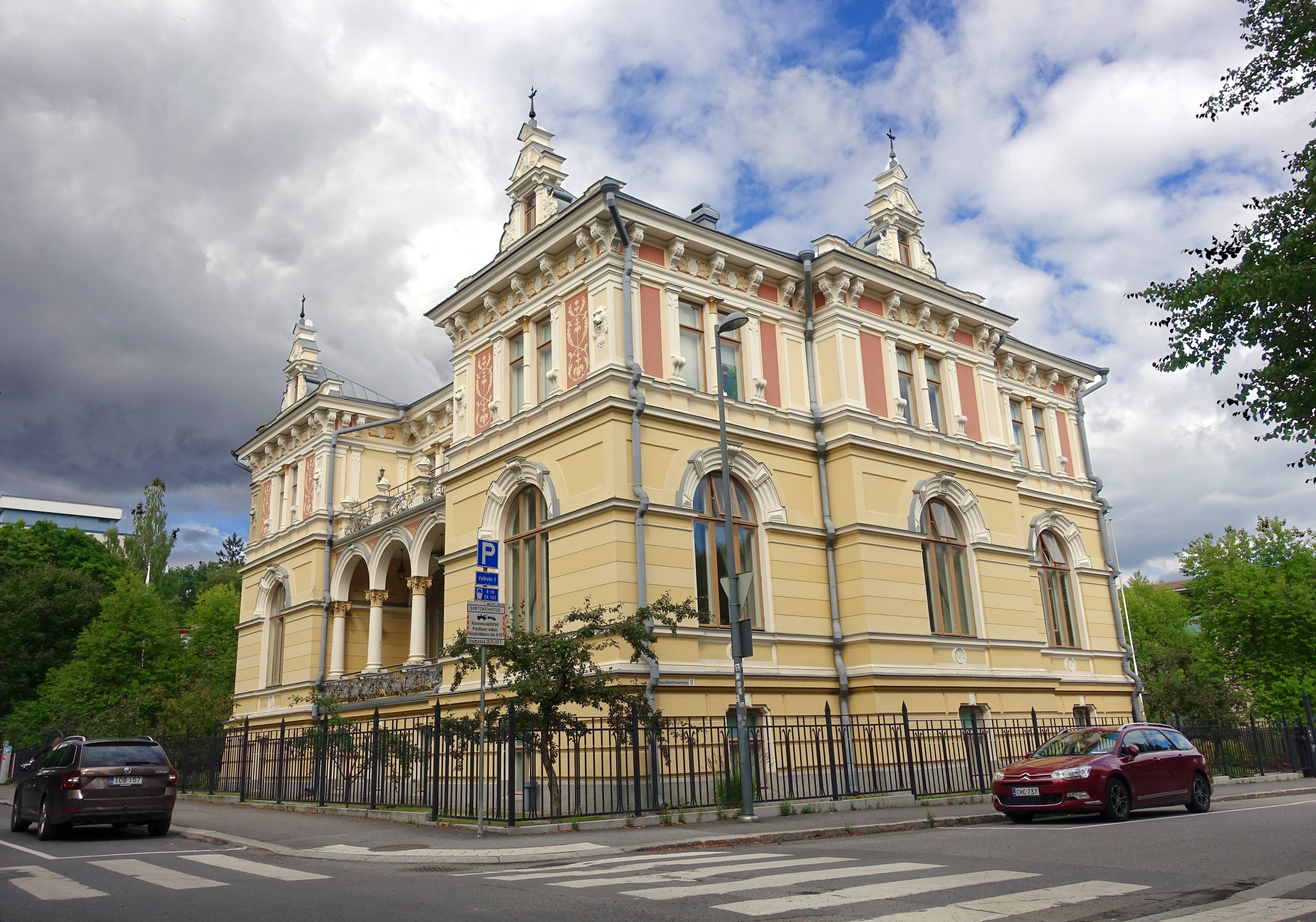 Hämeenpuisto 7 in Tampere, Finland.